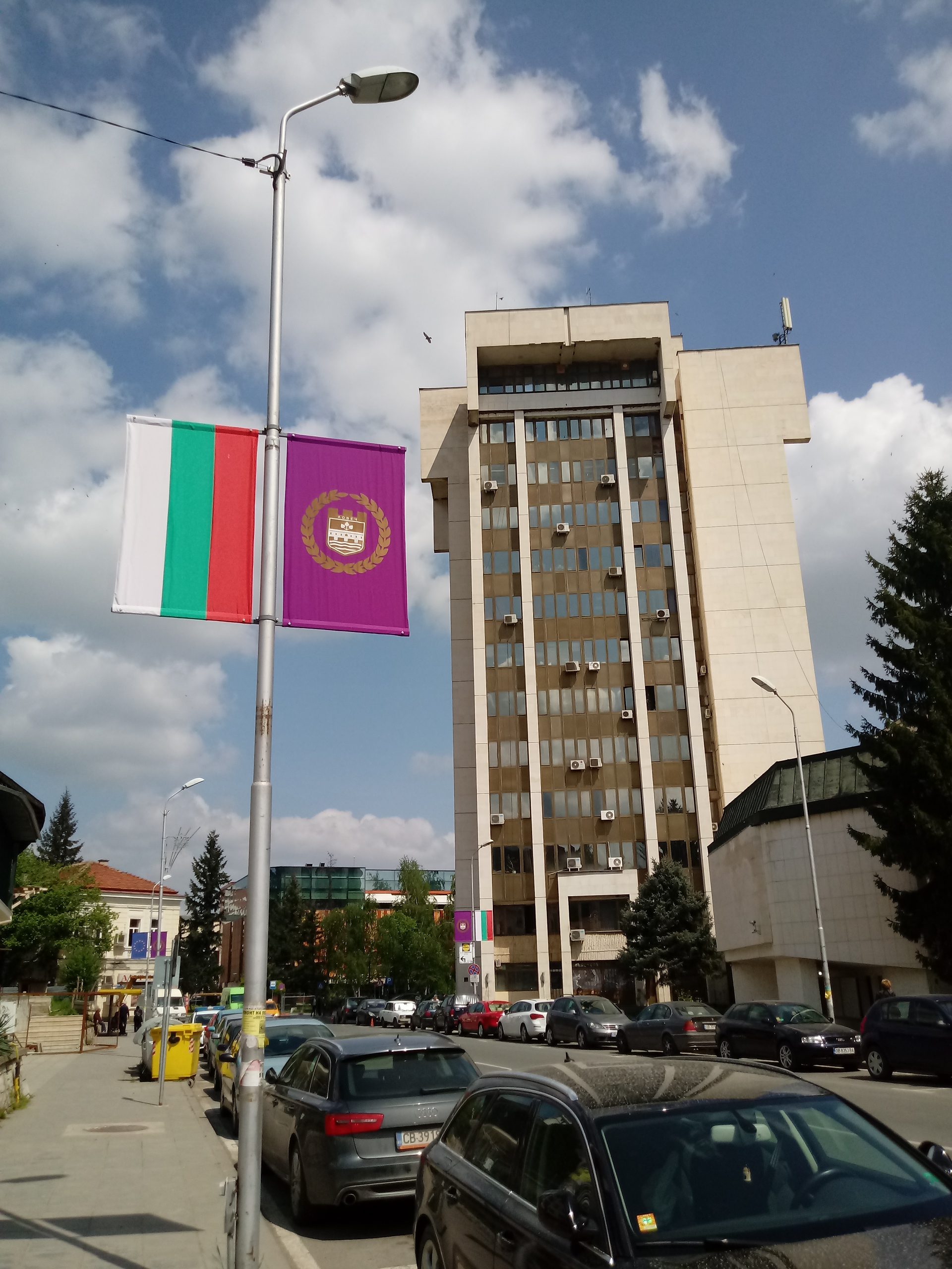 Administrative building of Lovech Province